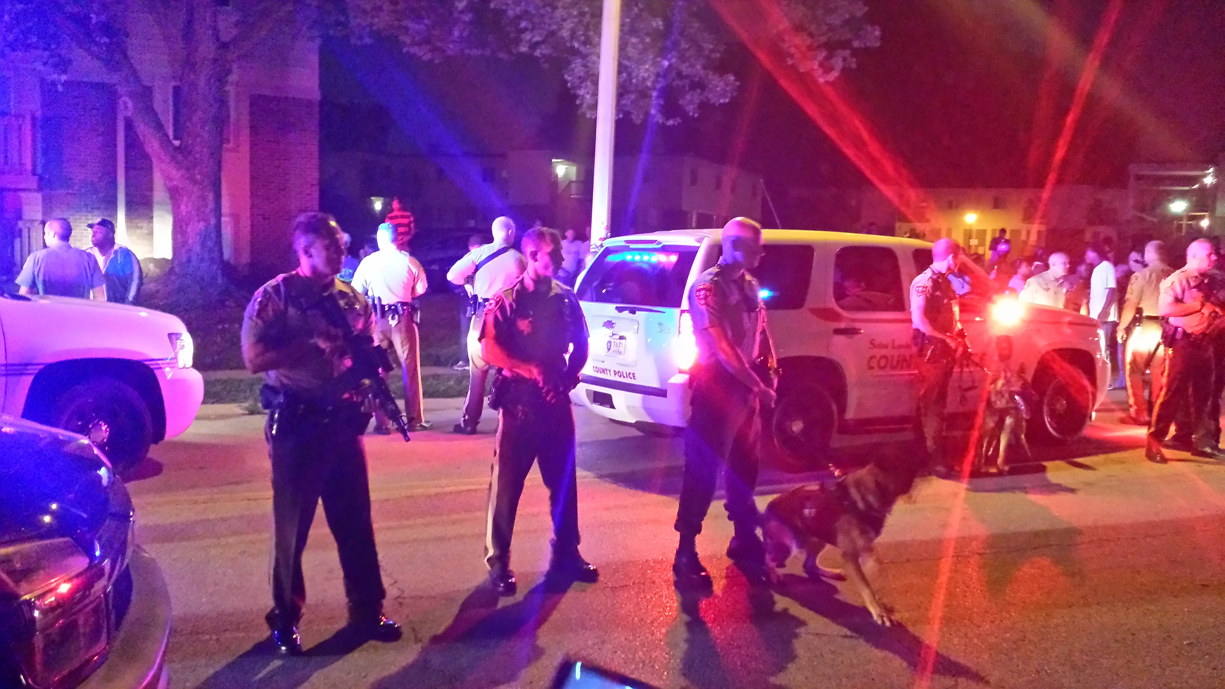 Police protect the scene hours after Ferguson Police Department officer Darren Wilson shot and killed Michael Brown